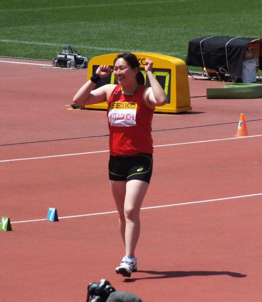 2015 GGP Kawasaki Women Javelin Throw Haruk KITAGUCHI 55m99